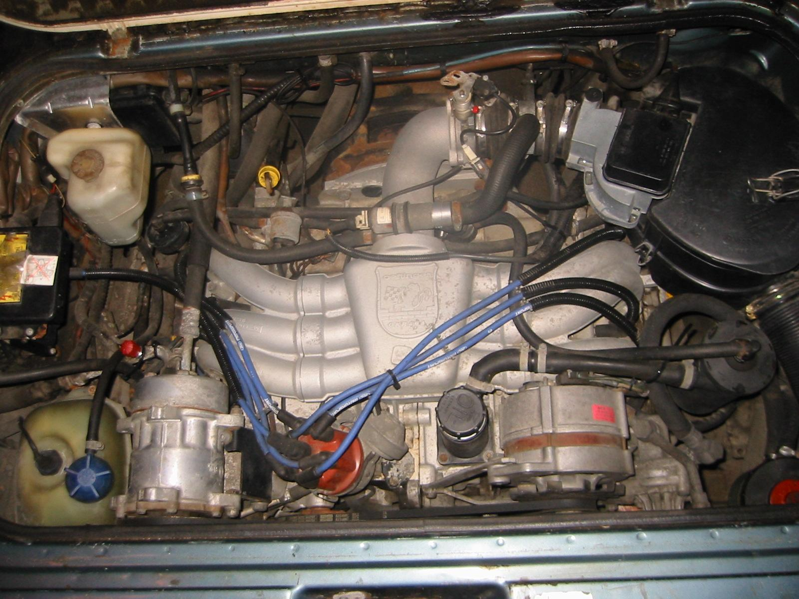 Oettinger T3700E/6 engine about 18 years after its installation, some modifications, A/C-equipped T3 Carat